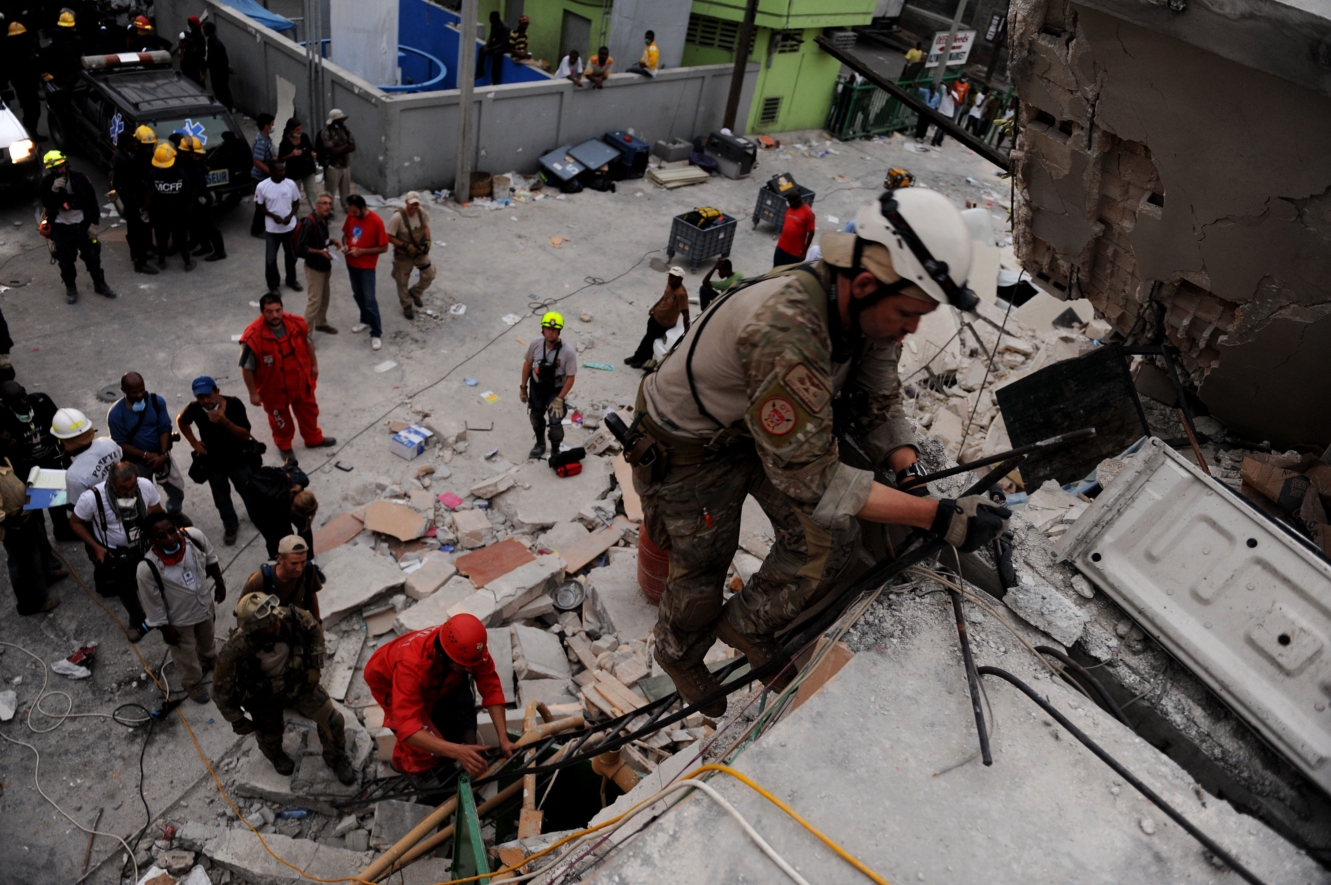 A U.S. Air Force pararescueman from the 23rd Special Tactics Squadron, Air Force Special Operations Command, Hurlburt Field, Fla., and members of various rescue teams climb a ladder to get to a 25-year-old woman who has been trapped in a collapsed building for seven days in Port-au-Prince, Haiti, on Jan. 19, 2010. U.S. Department of Defense assets have been deployed to assist in the relief effort under way after a 7.0-magnitude earthquake hit the city on Jan. 12, 2010.